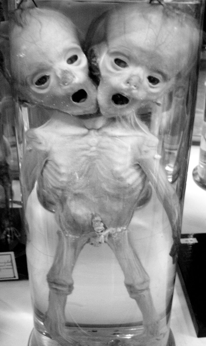 Conjoined human fetuses note: Due to bad photographing conditions, the original photograph had considerable grain and bad colors. Here it is shown with reduced grain, in black and white and with boosted contrast.